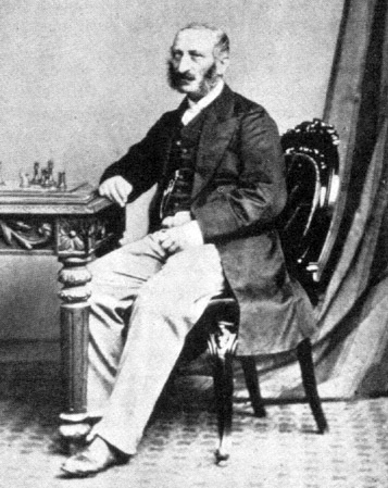 Portrait of Johann Löwenthal (1810-1876)